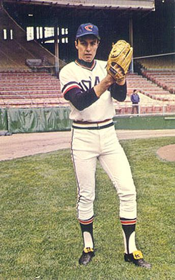 Color postcard from the 1973 Cleveland Indians postcard set of professional baseball player Brent Strom